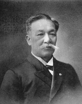 Yoshinao Hatano